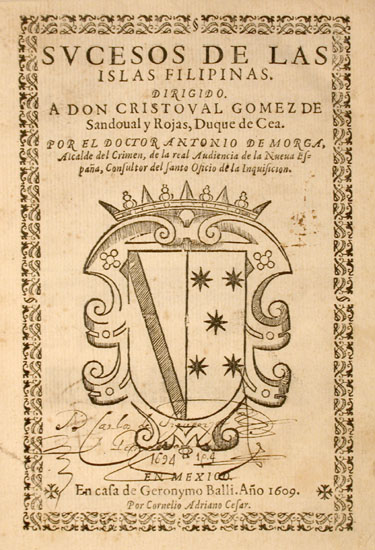 The title page of the book Sucesos_de_las_Islas_Filipinas, published in 1609 by Antonio de Morga (1559-1636)